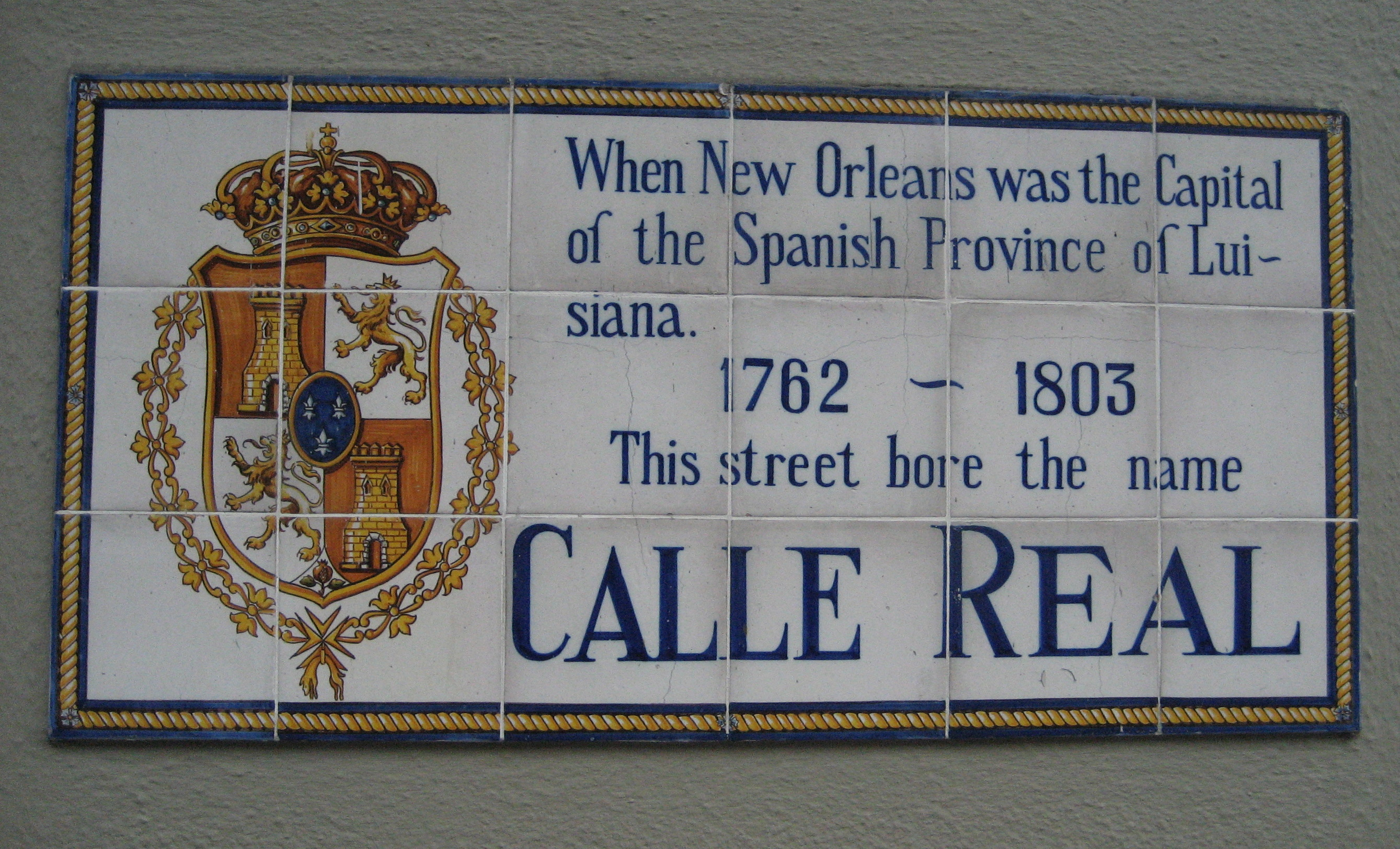 Royal Street, French Quarter of New Orleans. Tiles with Spanish colonial street name.